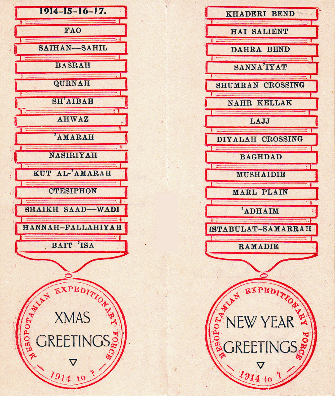 Xmas card from British Mesopotamian Expeditionary Force with list of engagements. Sent from Basra, Xmas, 1917, from Jack Hood to Mrs. H. Stansfield Prior.